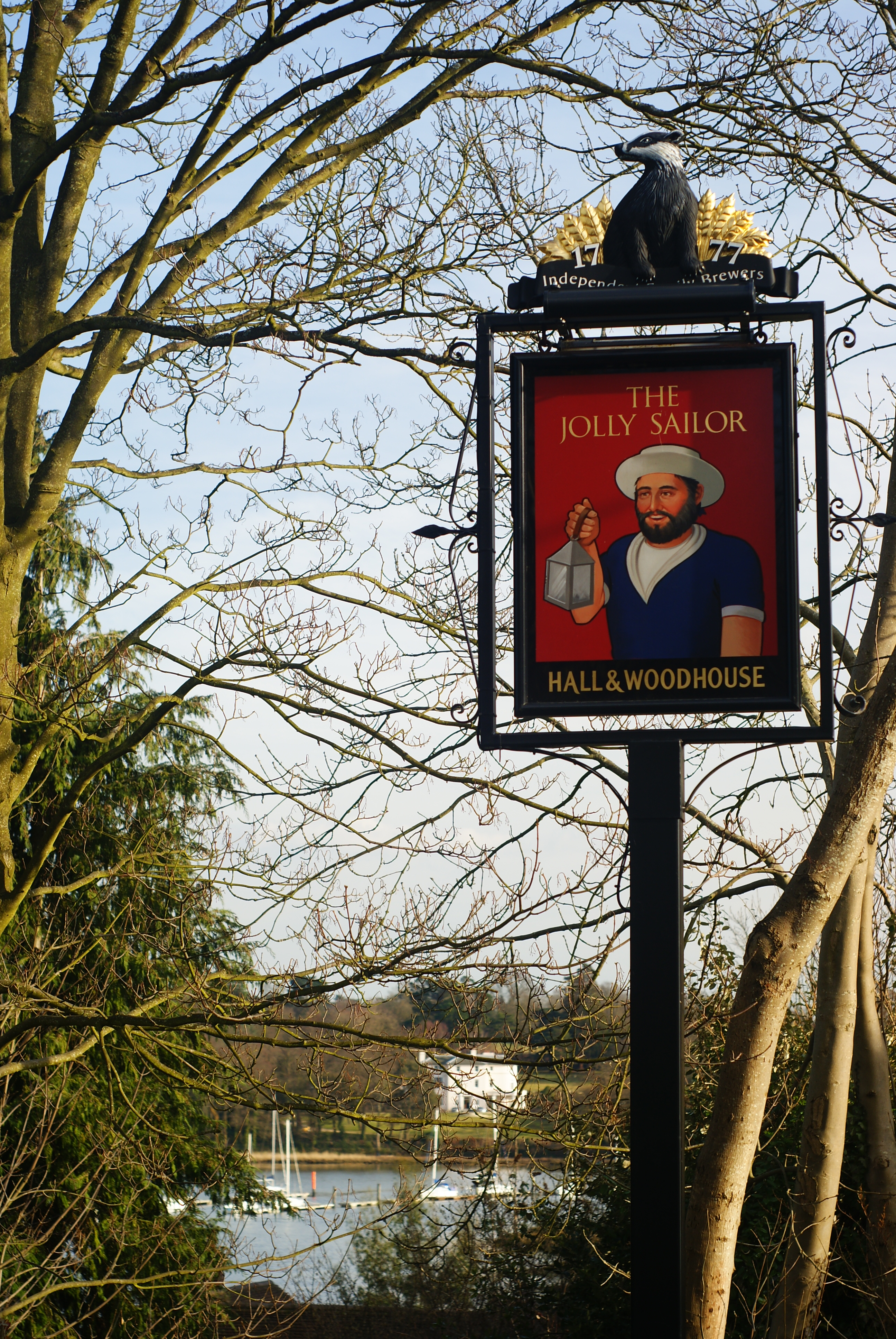 At the Sign of the Jolly Sailor, Bursledon Located on Lands End Road; high above the pub, which is reached via a long set of steps. The River Hamble can be seen at the bottom of the picture.